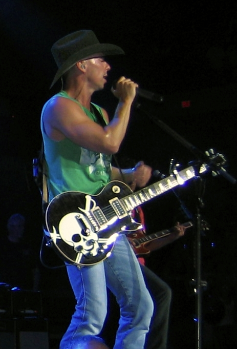 Kenny Chesney performing on May 11, 2007 at Van Andel